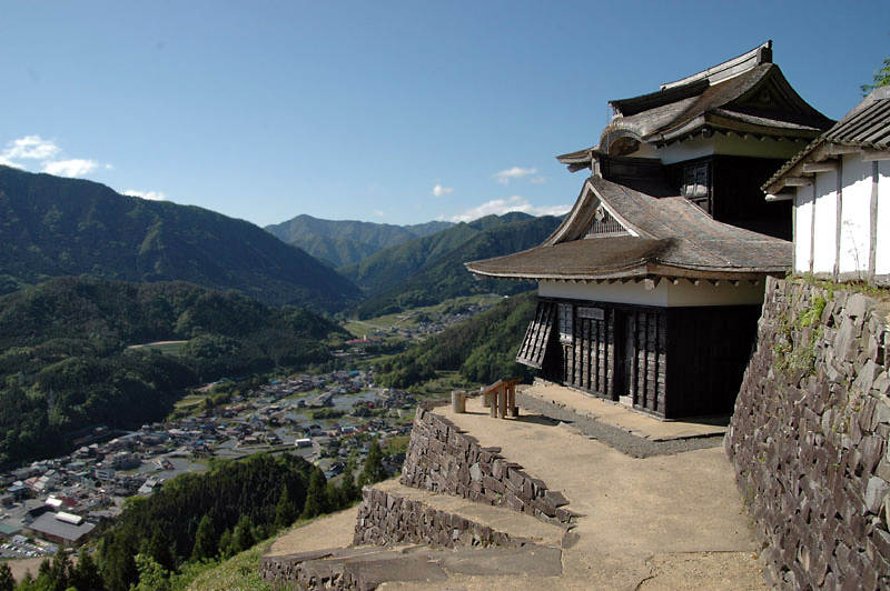 Haga_Castle in Shiso, Hyogo prefecture, Japan